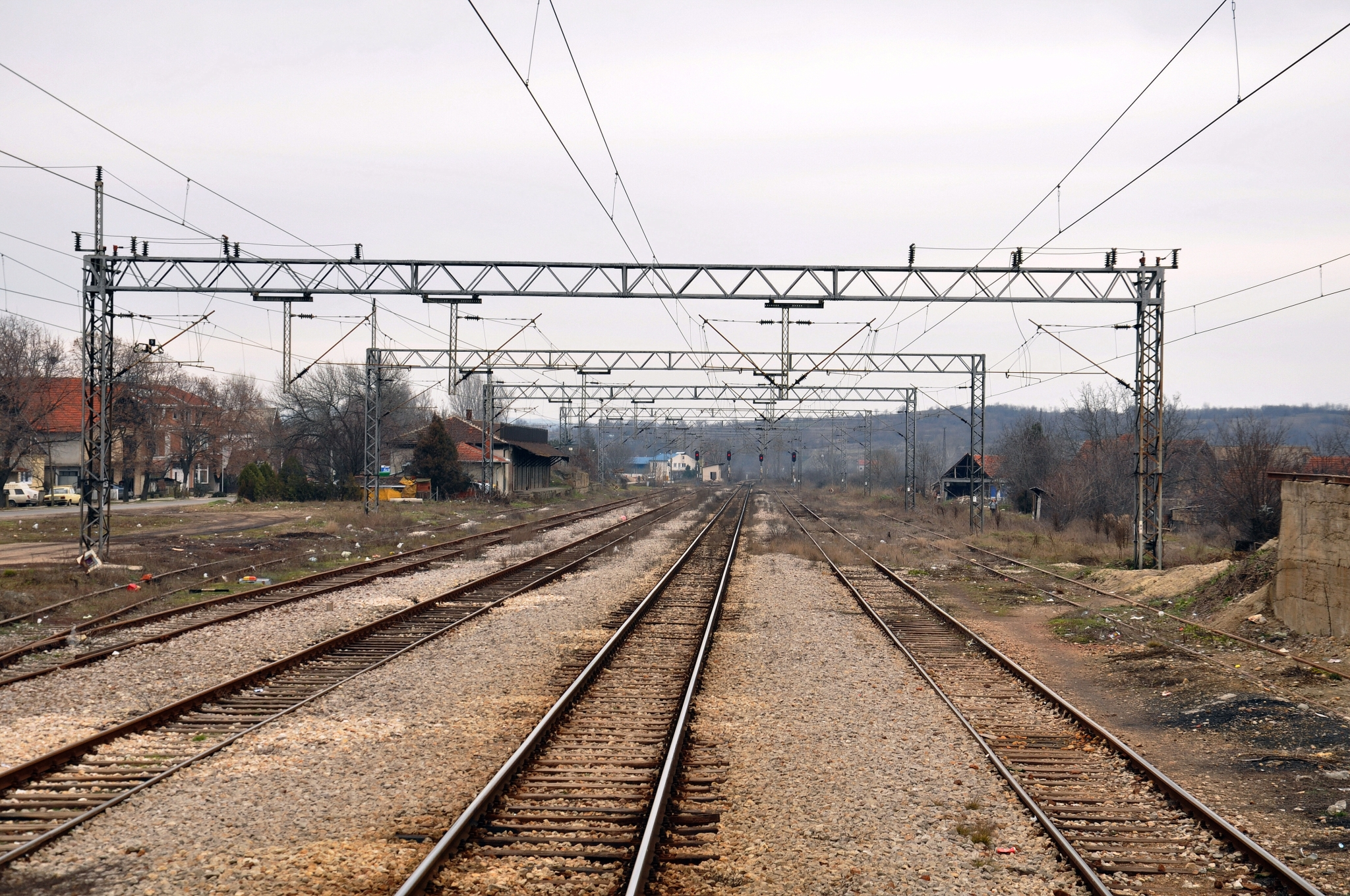 Doljevac railway station